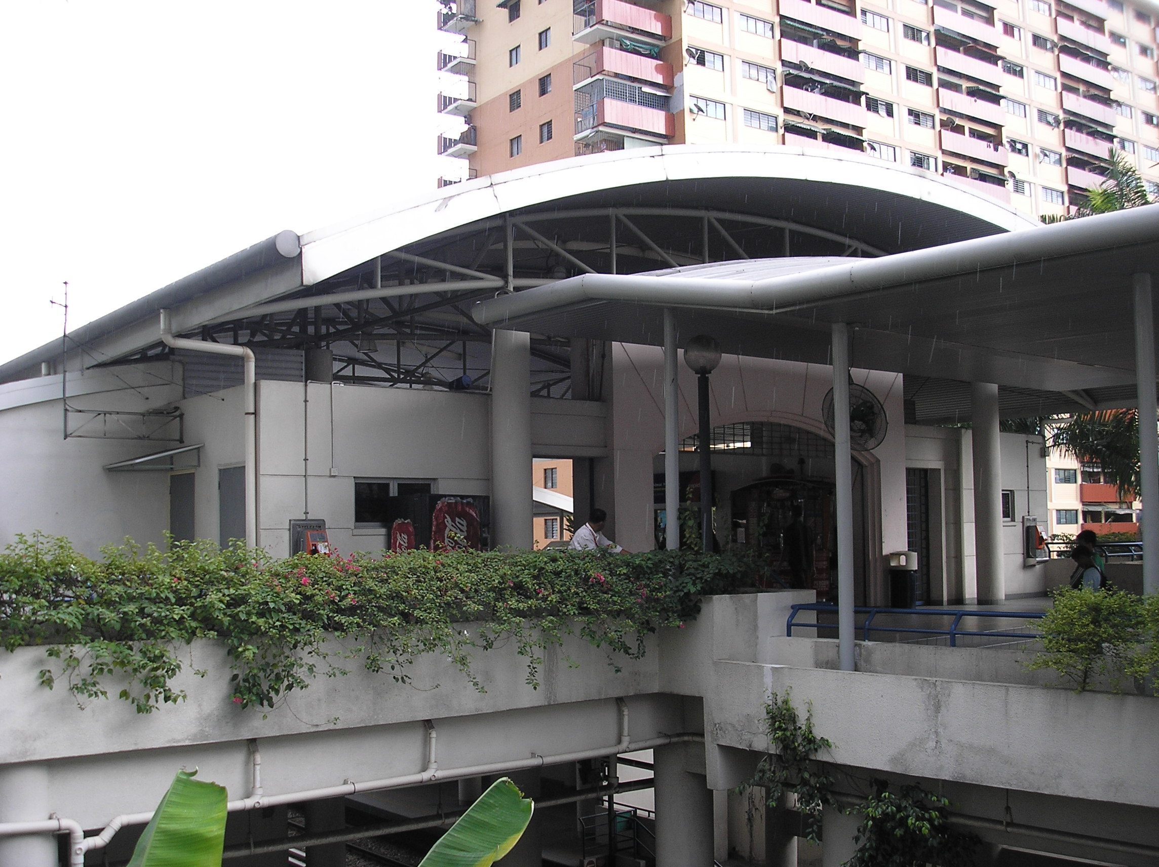 The entrance of the Hang Tuah LRT station (Sri Petaling Line/Ampang Line), Kuala Lumpur, Malaysia. There was a drizzle.